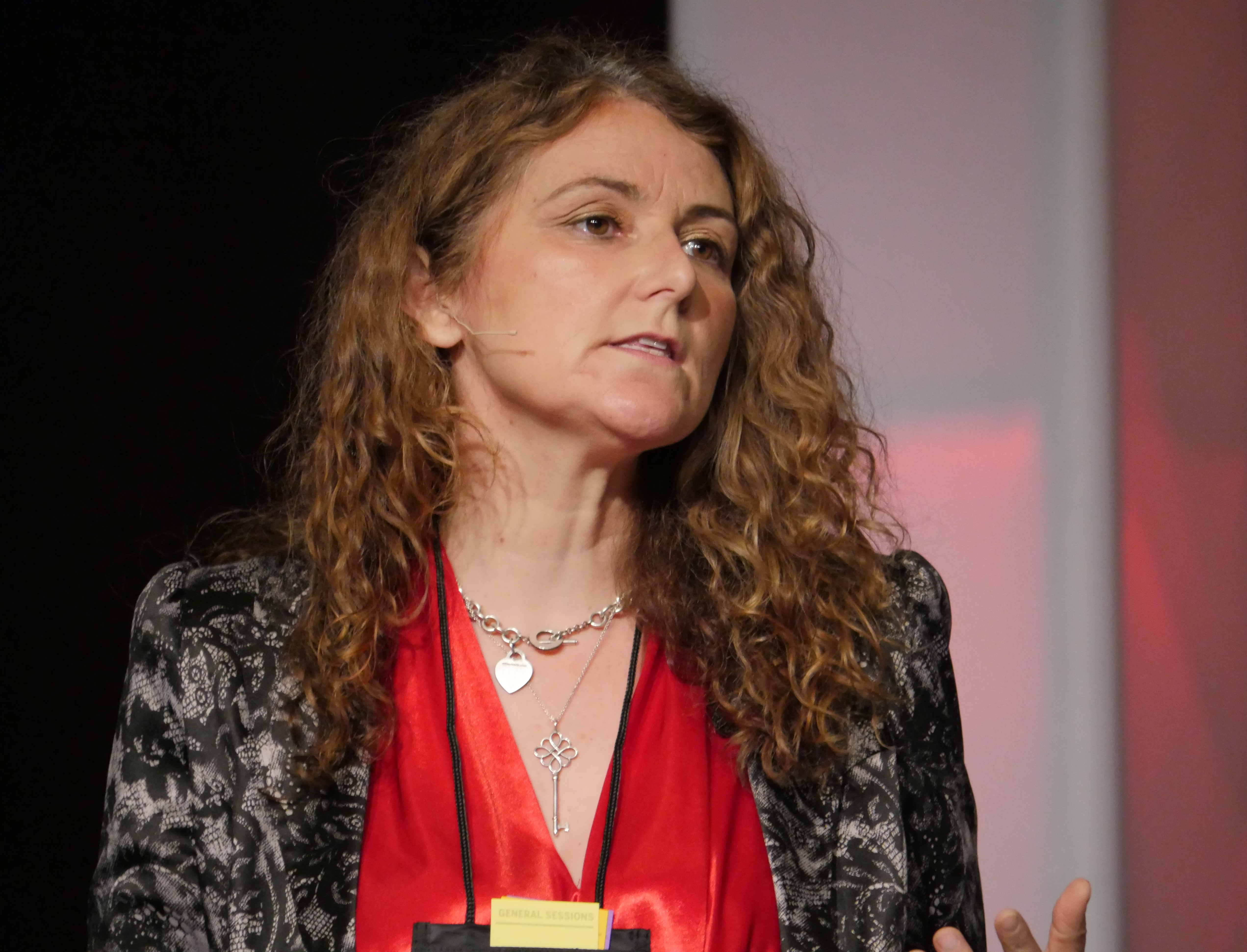 Jen Gunter CSICon 2018 Vaginal Snake Oil Profiteers, from Paltrow to the Patriarchy